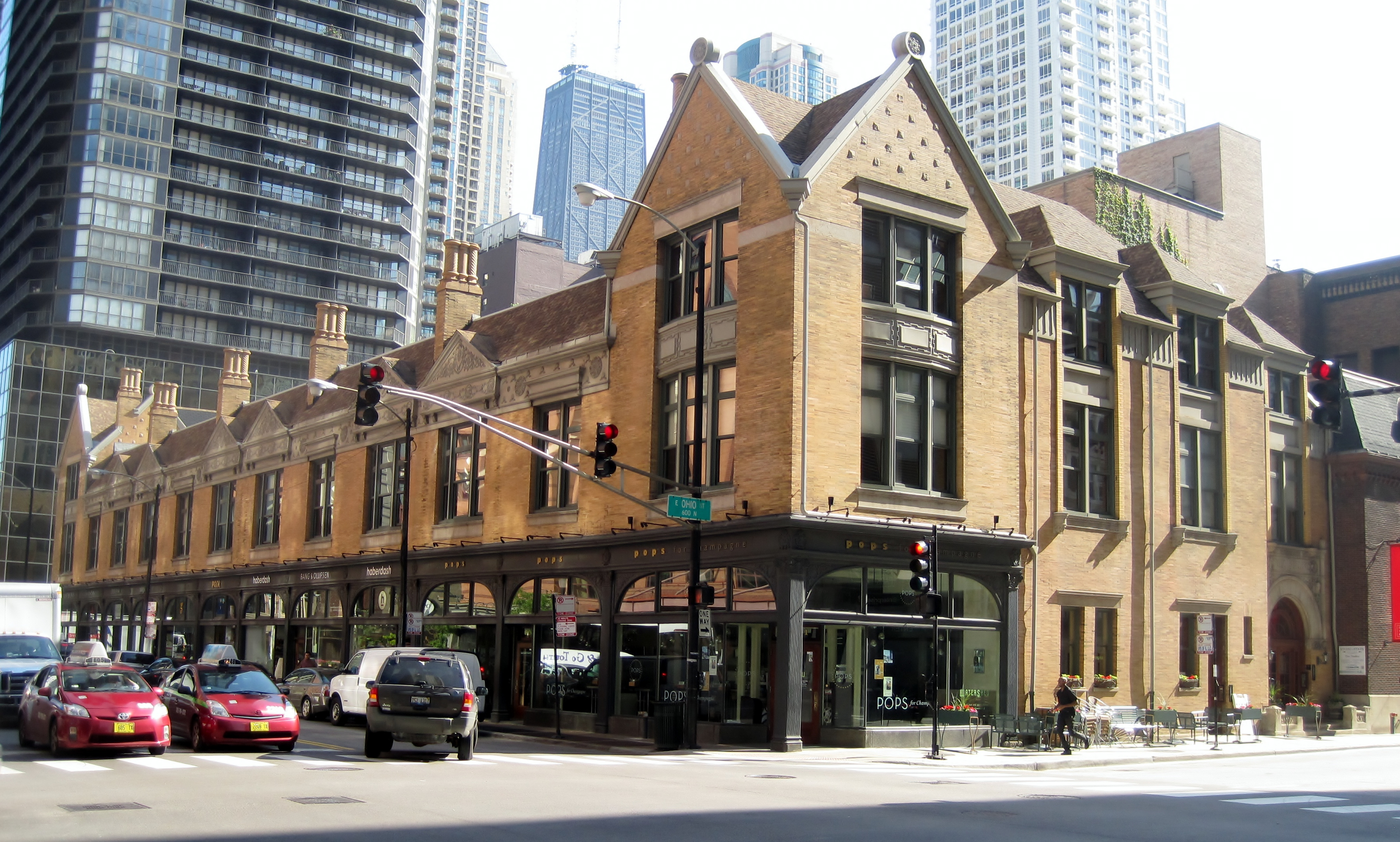 The Tree Studio Building and Annexes in Chicago (1894, annexes 1913). It was built for former U.S. Ambassador to Belgium and Russia Lambert Tree to provide low-cost housing for Chicago artists. Among those who have resided in the building are Albin Polasek, John Storrs, Peter Falk, and Burgess Meredith.